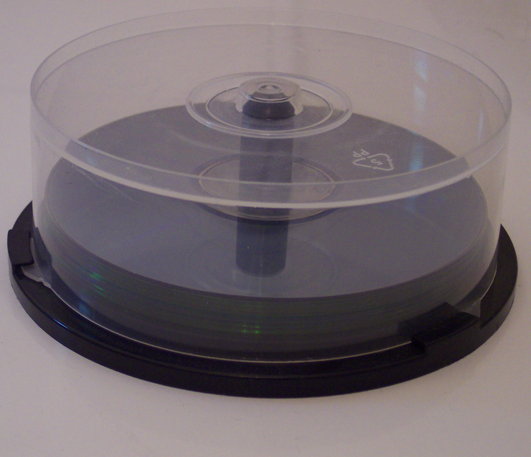 Cakebox; 25 CDs/DVDs closed Public Domain